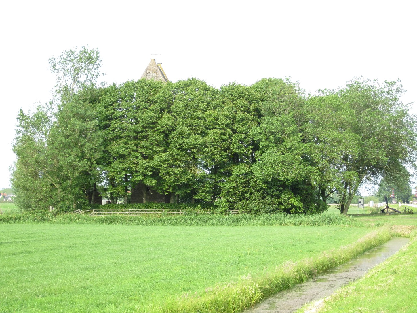 Church tower and churchyard of the hamlet of Skillaard (Schillaard), village of Mantgum, Friesland, the Netherlands.